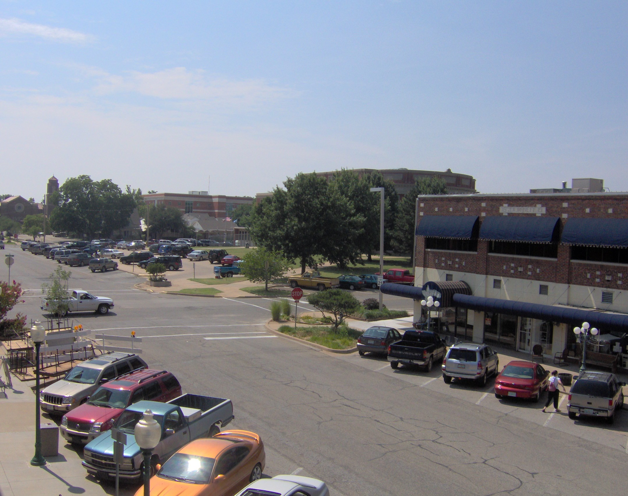 View of downtown Stillwater, Oklahoma. The picture, taken from a second-story roof on Seventh Avenue, aims toward the county courthouse, which is hidden by trees.